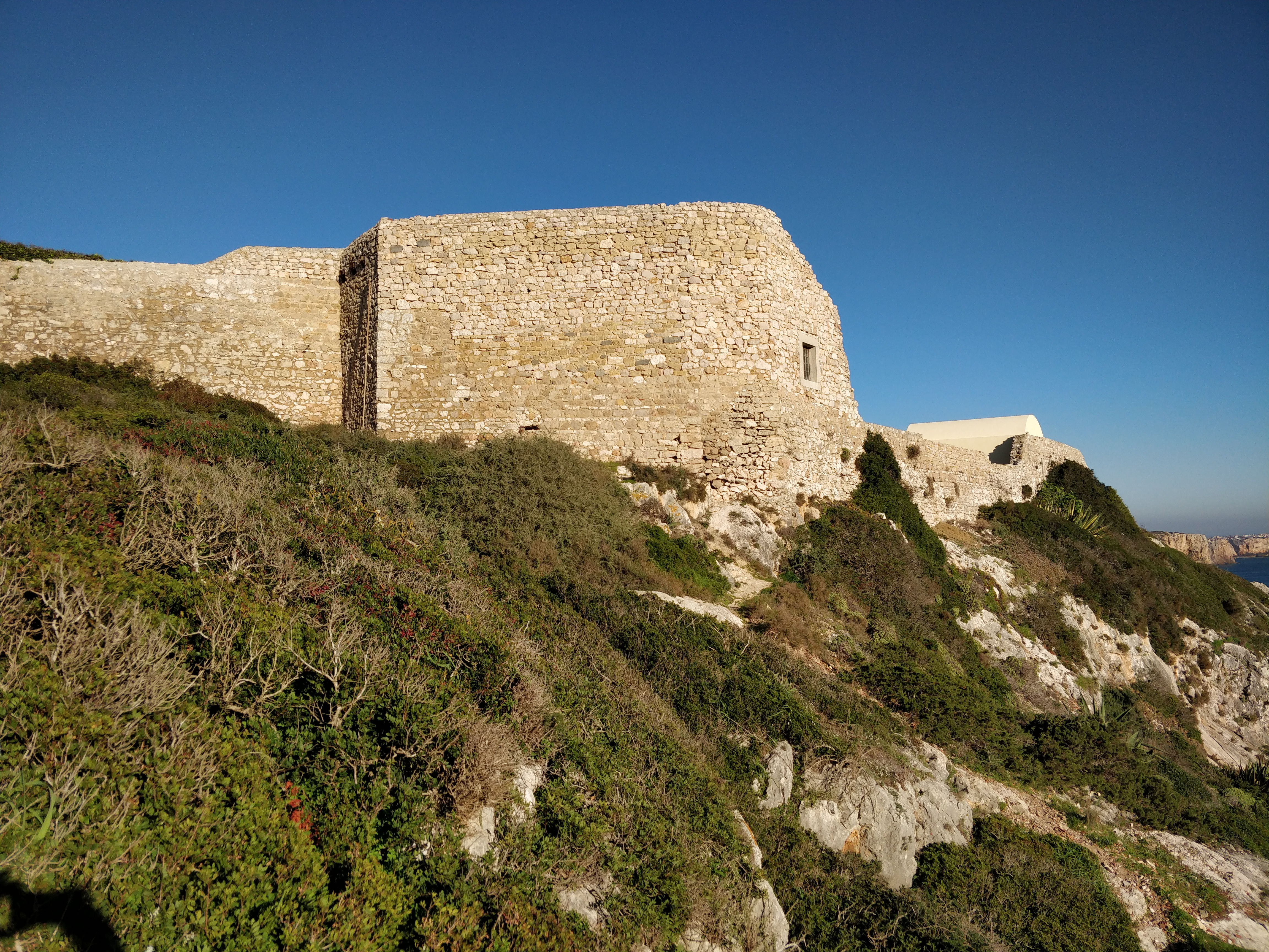 External view of the Fortaleza de Belixe (or Beliche) in the municipality of Vila do Bispo, close to Sagres in Portugal.